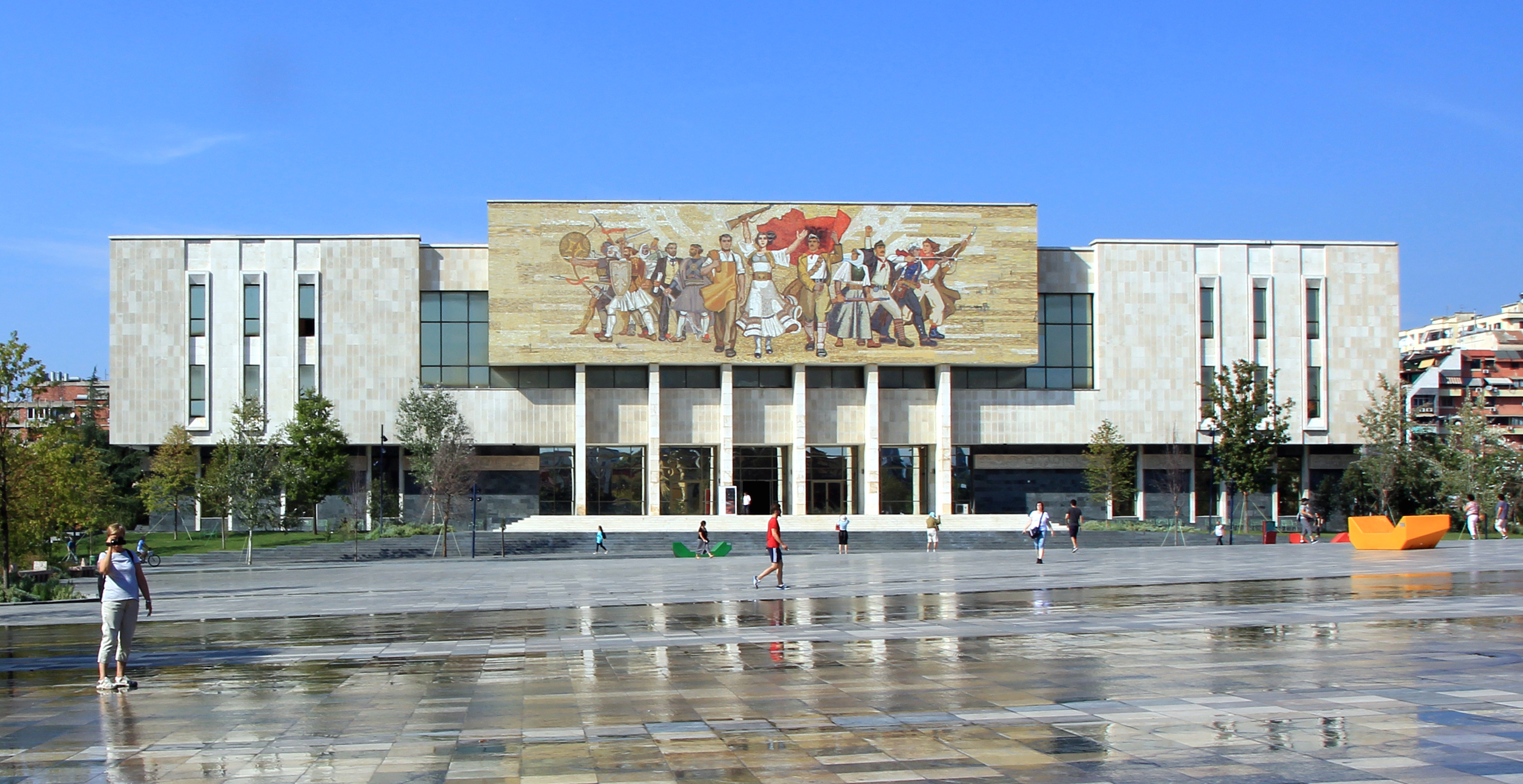 The National Museum of History on Skanderbeg Square in the centrum of the capitol of Albania, Tirana, September 2018